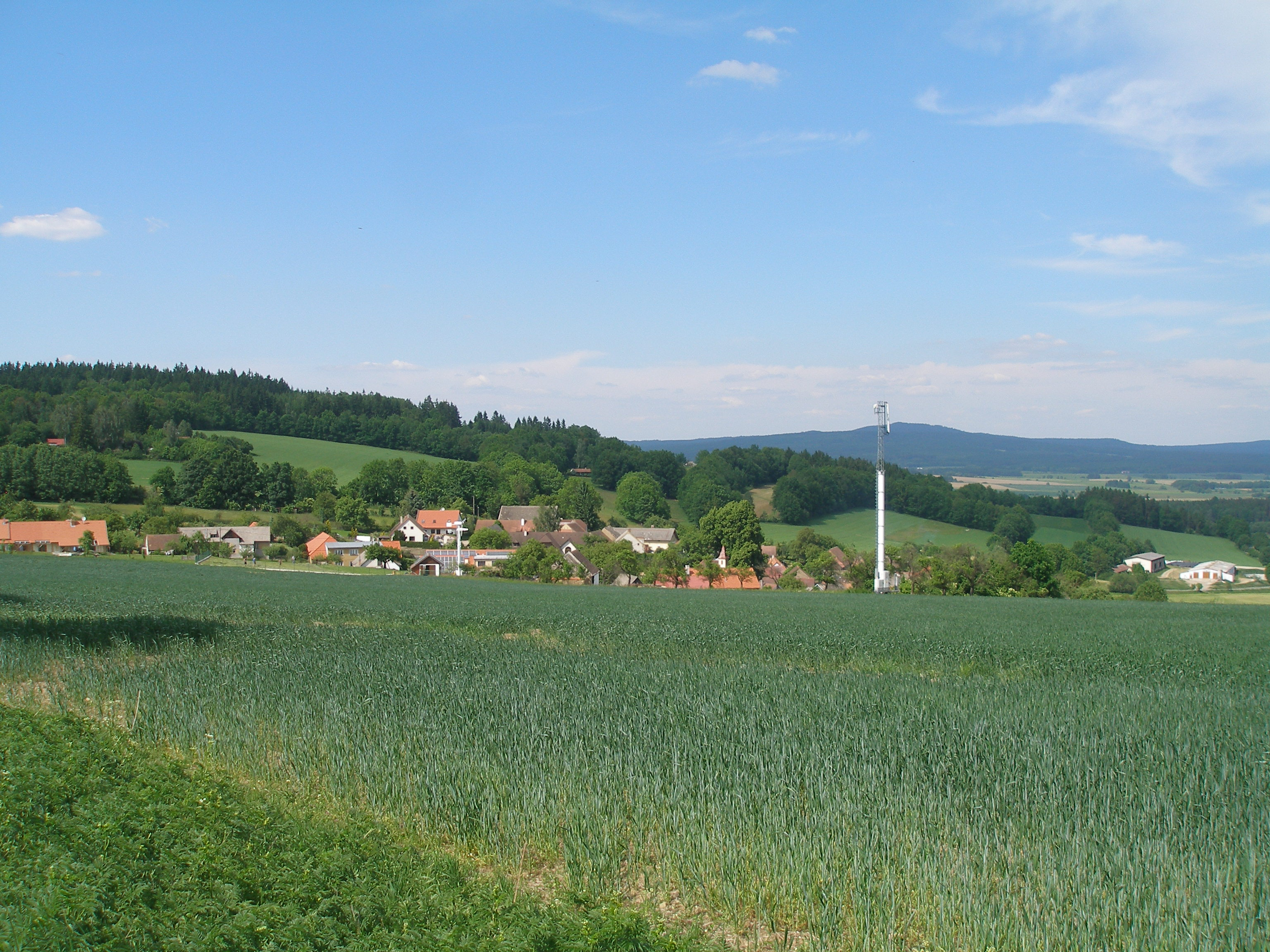 The general view of Chloumek